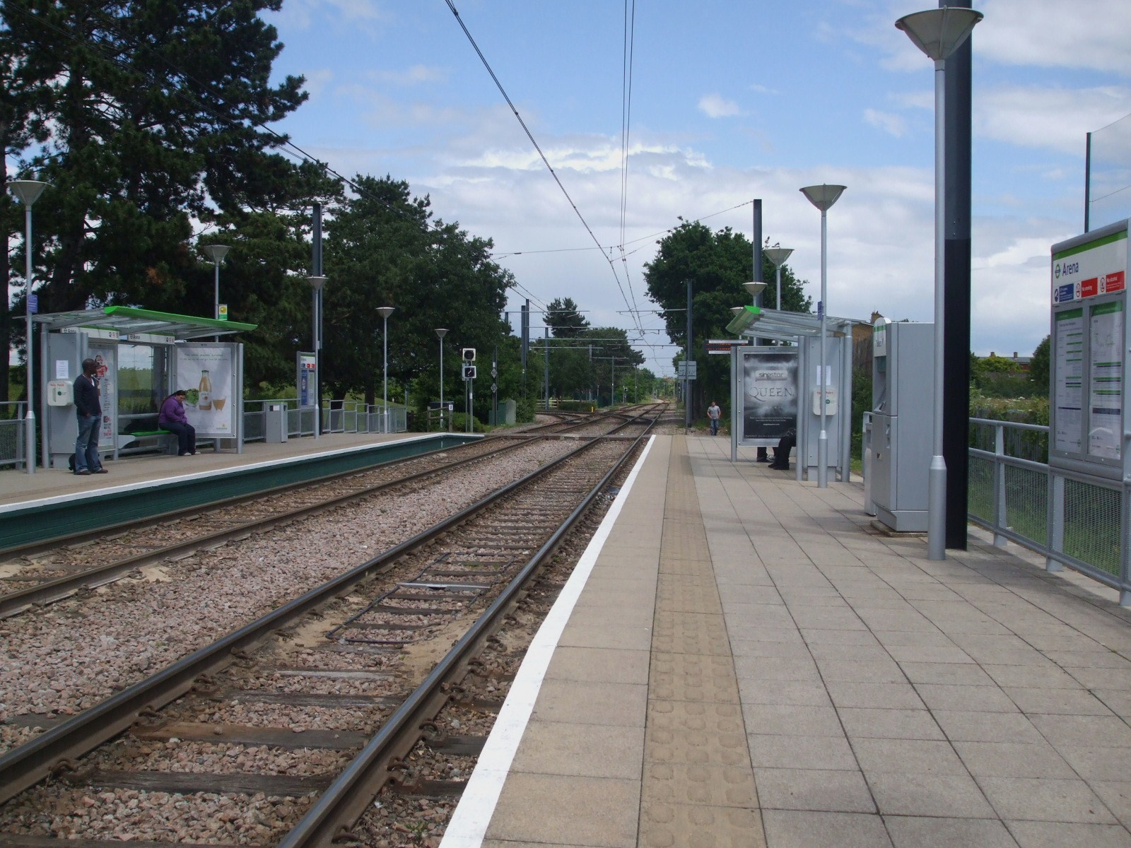 Arena tram stop with looking north. Junction between the Elmers End and Beckenham Junction branches (the latter bearing left) can be seen ahead. The section of Tramlink between Elmers End and just west of Lloyd Park tram stop uses the route of a main line railway, closed in stages between 1983 and 1997.